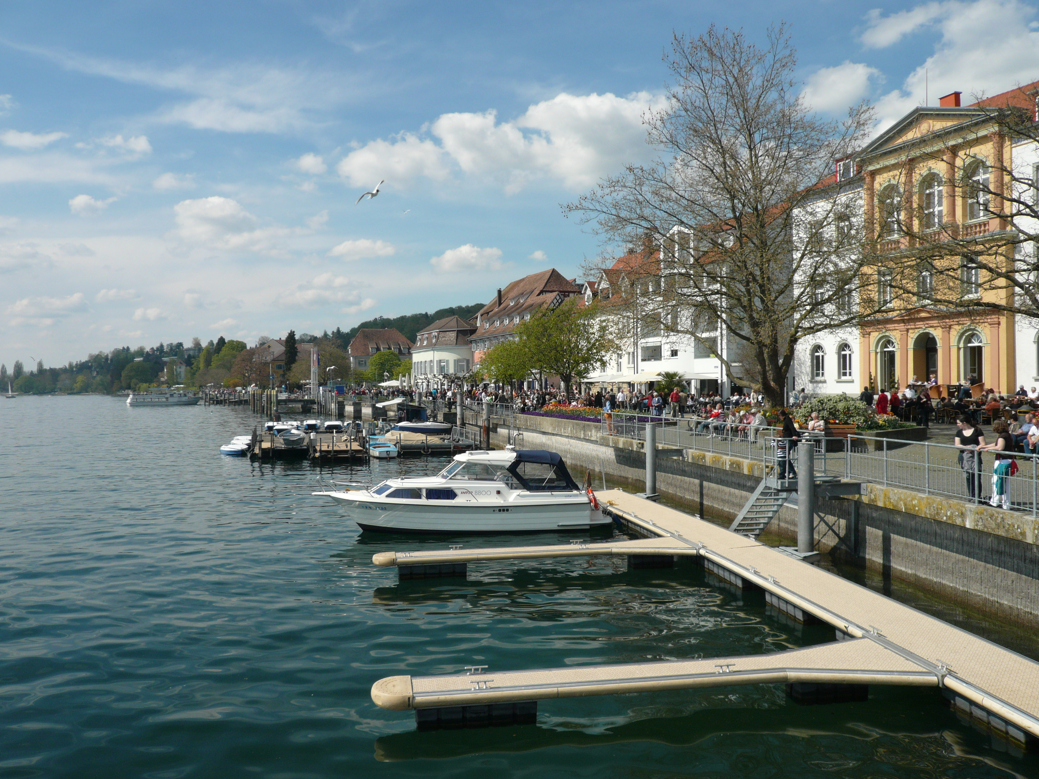 Überlingen, shore of Lake Konstanz